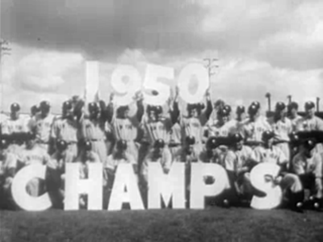 The 1951 New York Yankees celebrate their victory in last year's World Series. * Screen capture from the film located at: This movie is part of the collection: Prelinger Archives